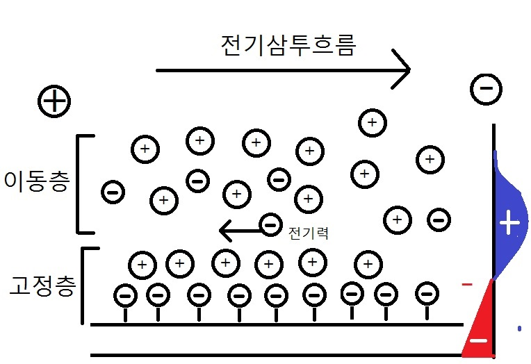 electroosmosis - charge distribution